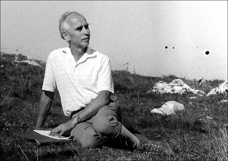 Max-Henri Béguin, sitting on the meadow.